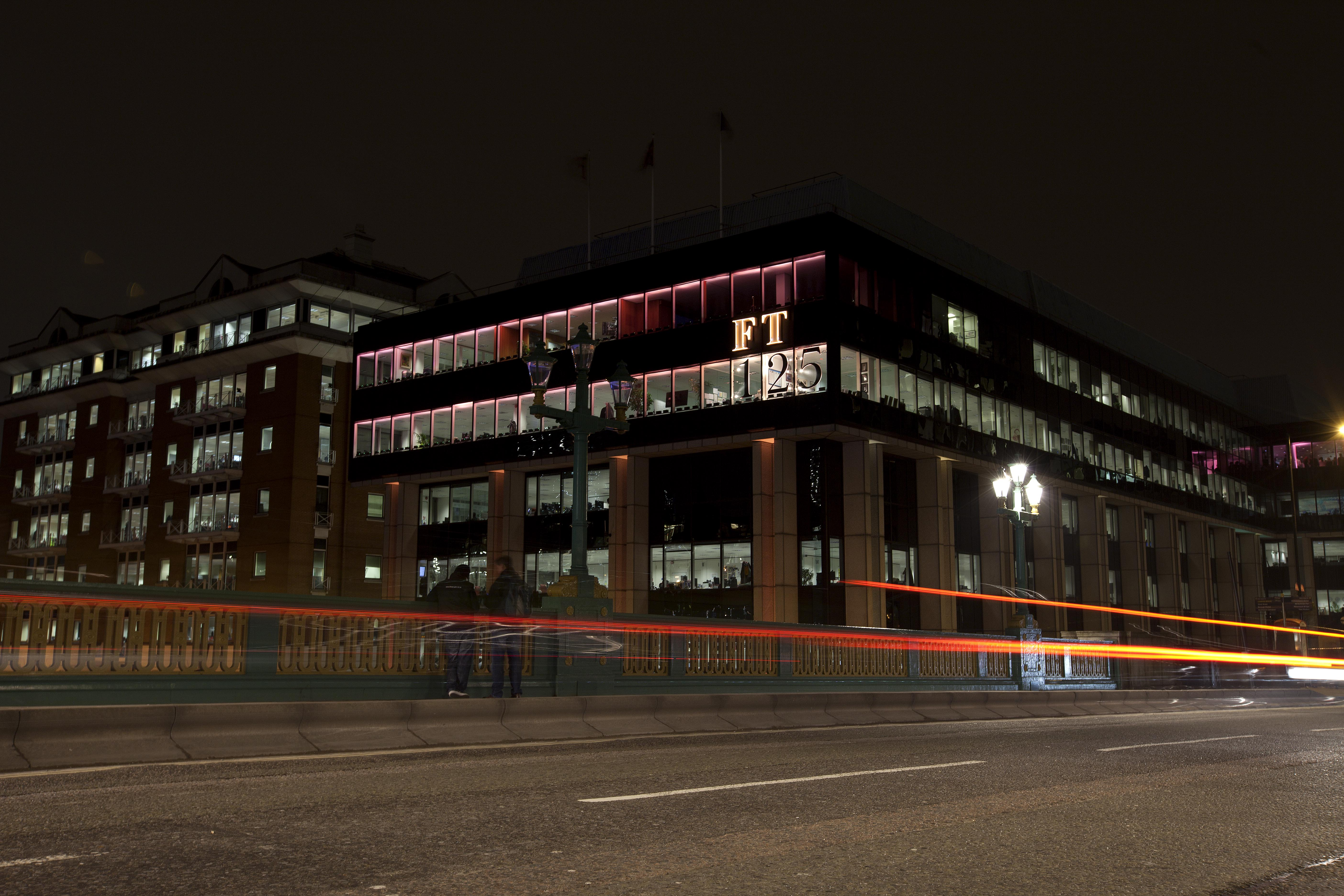 The Financial Times building at One Southwark Bridge, London, decorated pink to mark the paper's 125th anniversary.